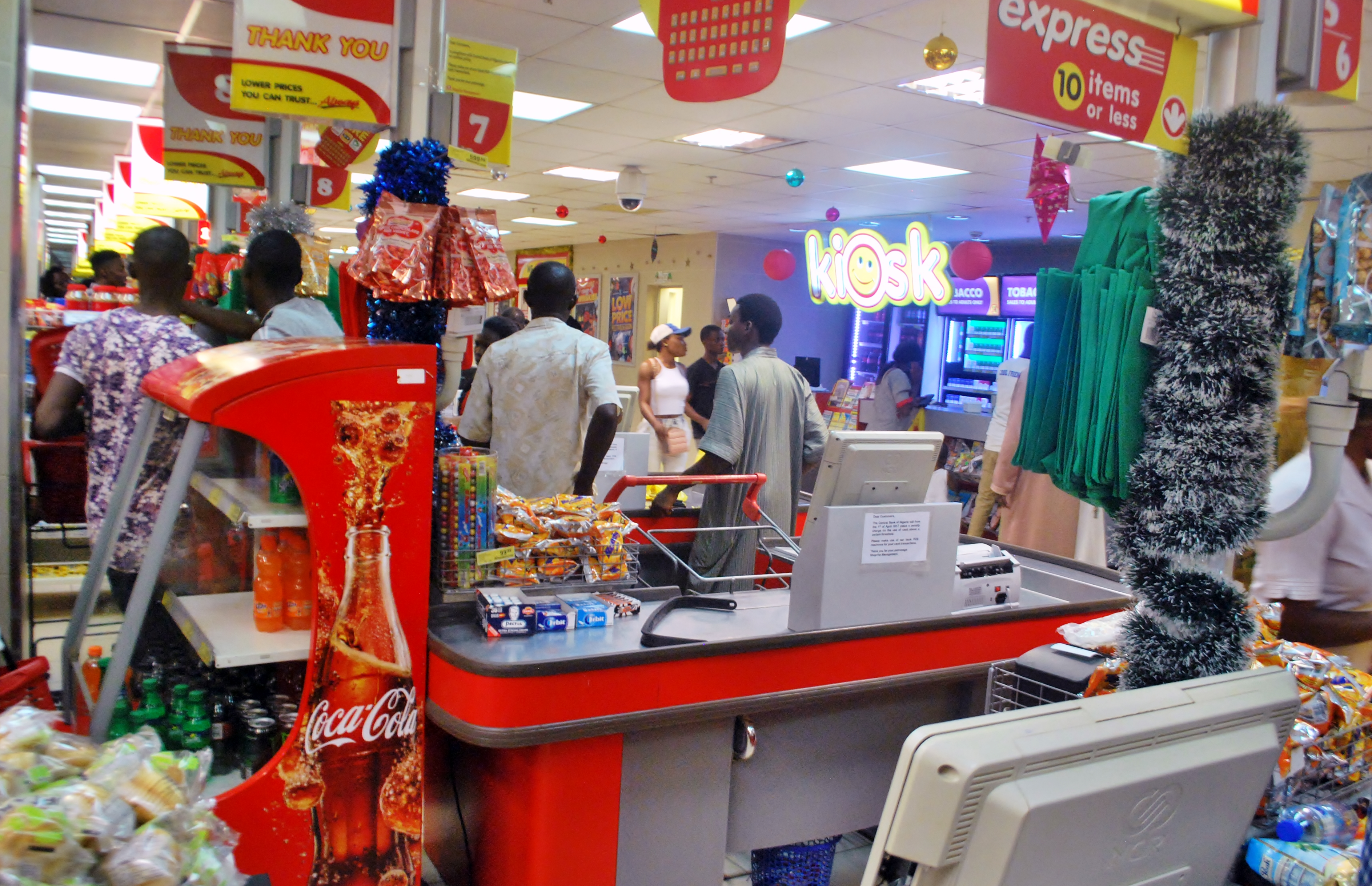 This is an image of "African people at work" from Nigeria